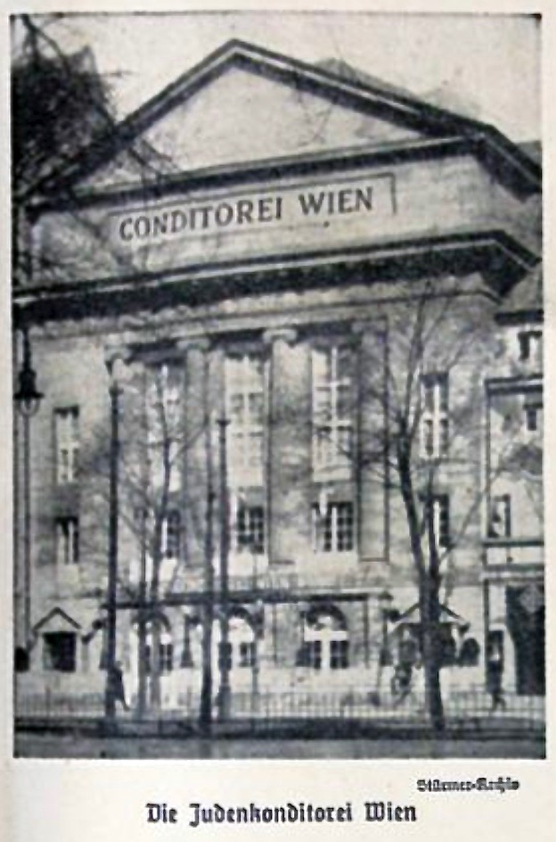 The Café Wien in Berlin at Kurfuerstendamm in the 1930s as published in the Antisemitic Nazi publication Der Stürmer in April 1937